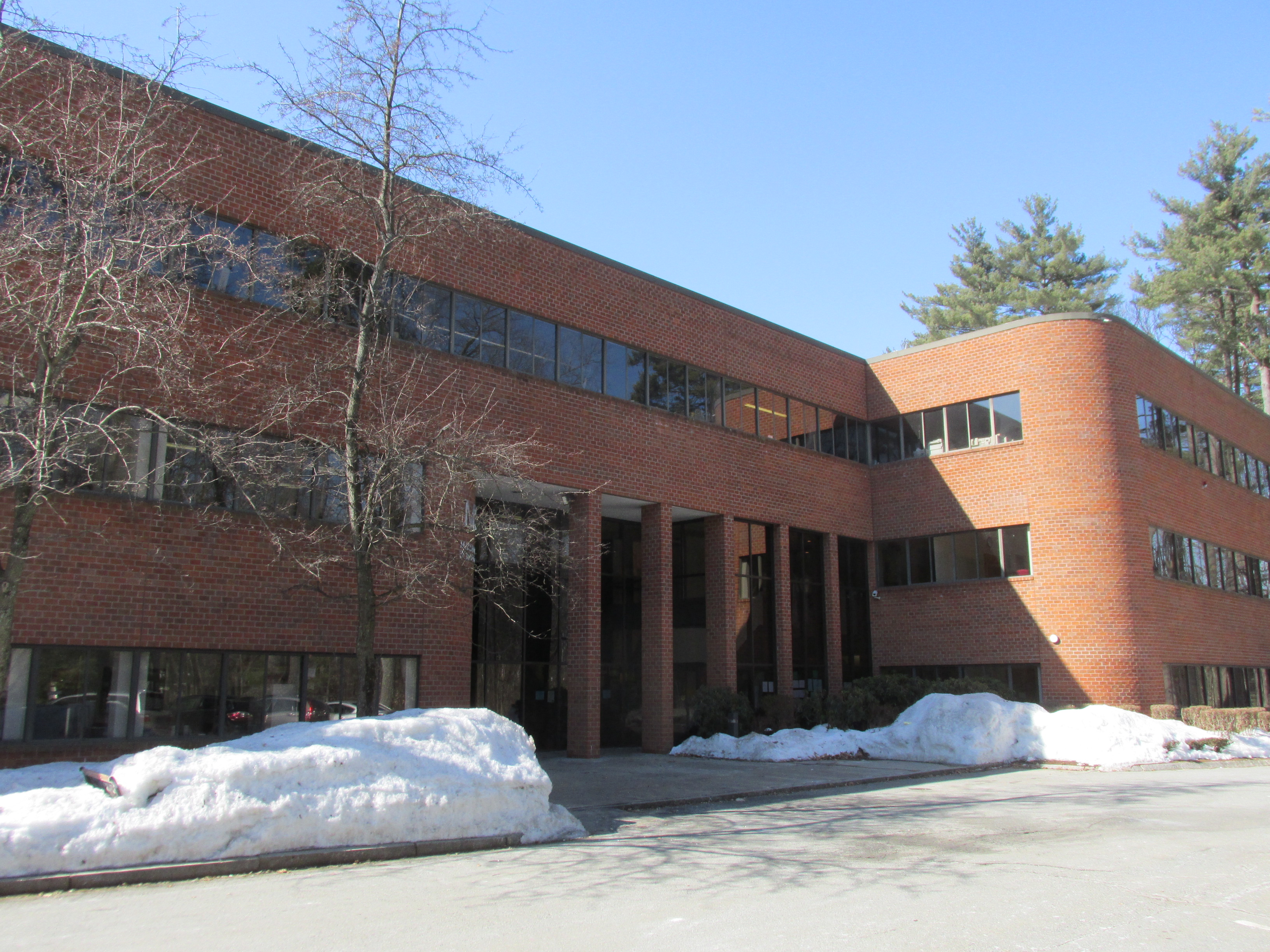 Massachusetts School of Law, Andover Massachusetts - 2014